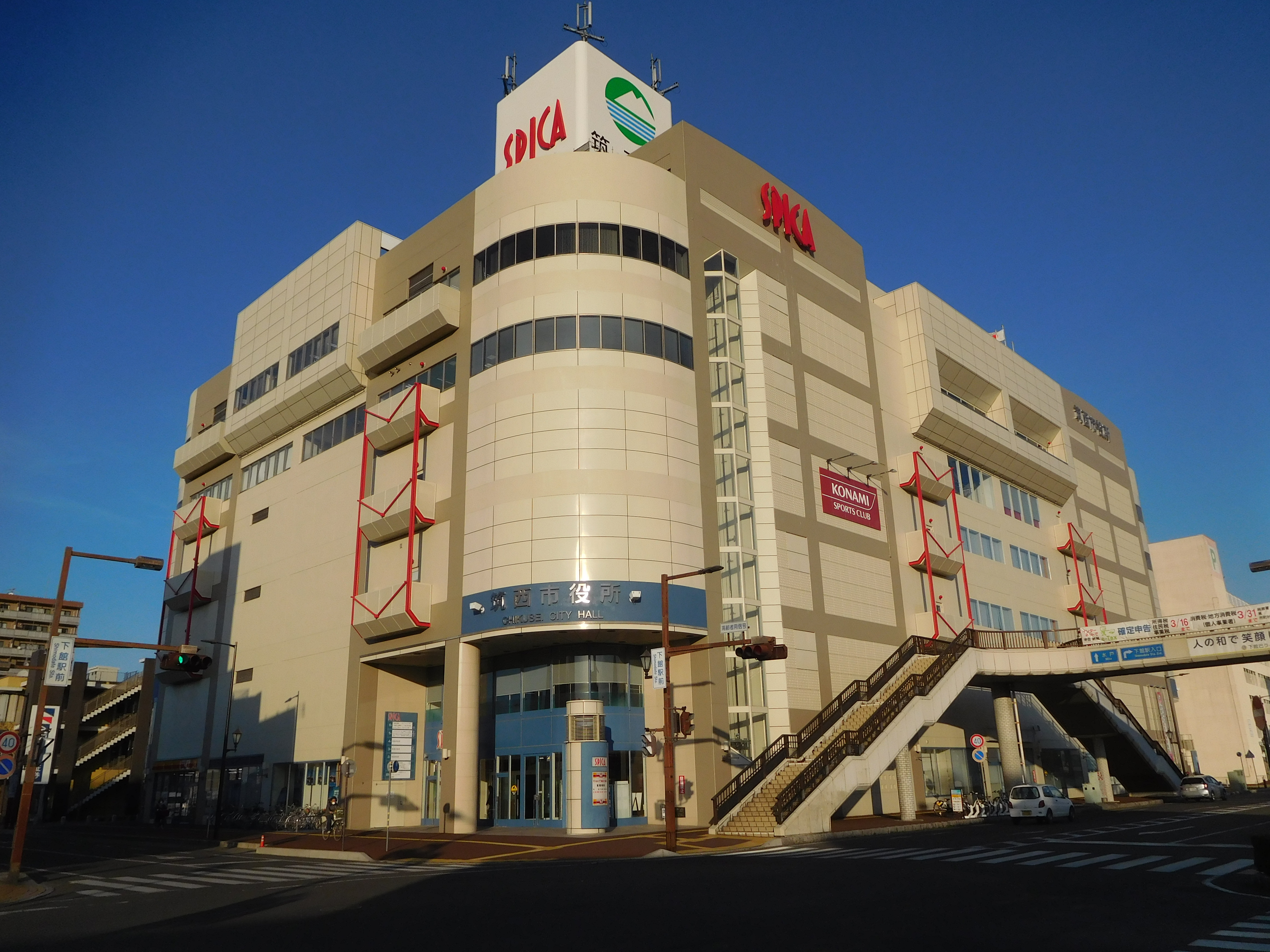 This is a retail building "Shimodate SPICA" in Chikusei, Ibaraki, Japan. It is also used as Chikusei city hall.